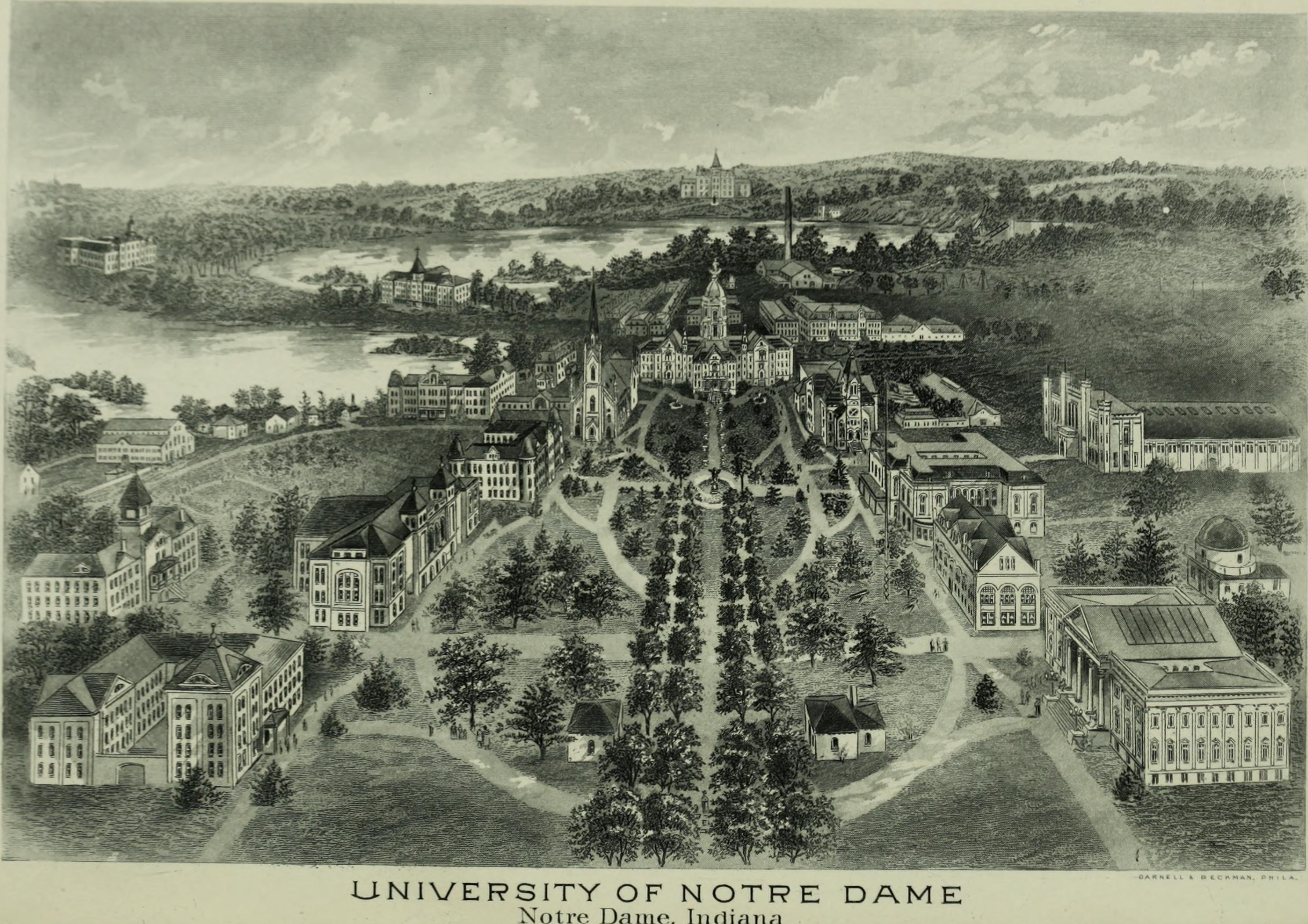 Title: Catalogue of the University of Notre Dame Year: 1898 (1890s) Authors: University of Notre Dame Subjects: University of Notre Dame University of Notre Dame University of Notre Dame Universities and colleges Publisher: Notre Dame, Ind. : University Press Text Appearing Before Image: ' Text Appearing After Image: Catalogue of the h ^ . ( University of Notre Dame,catalogueofunive19univ_0